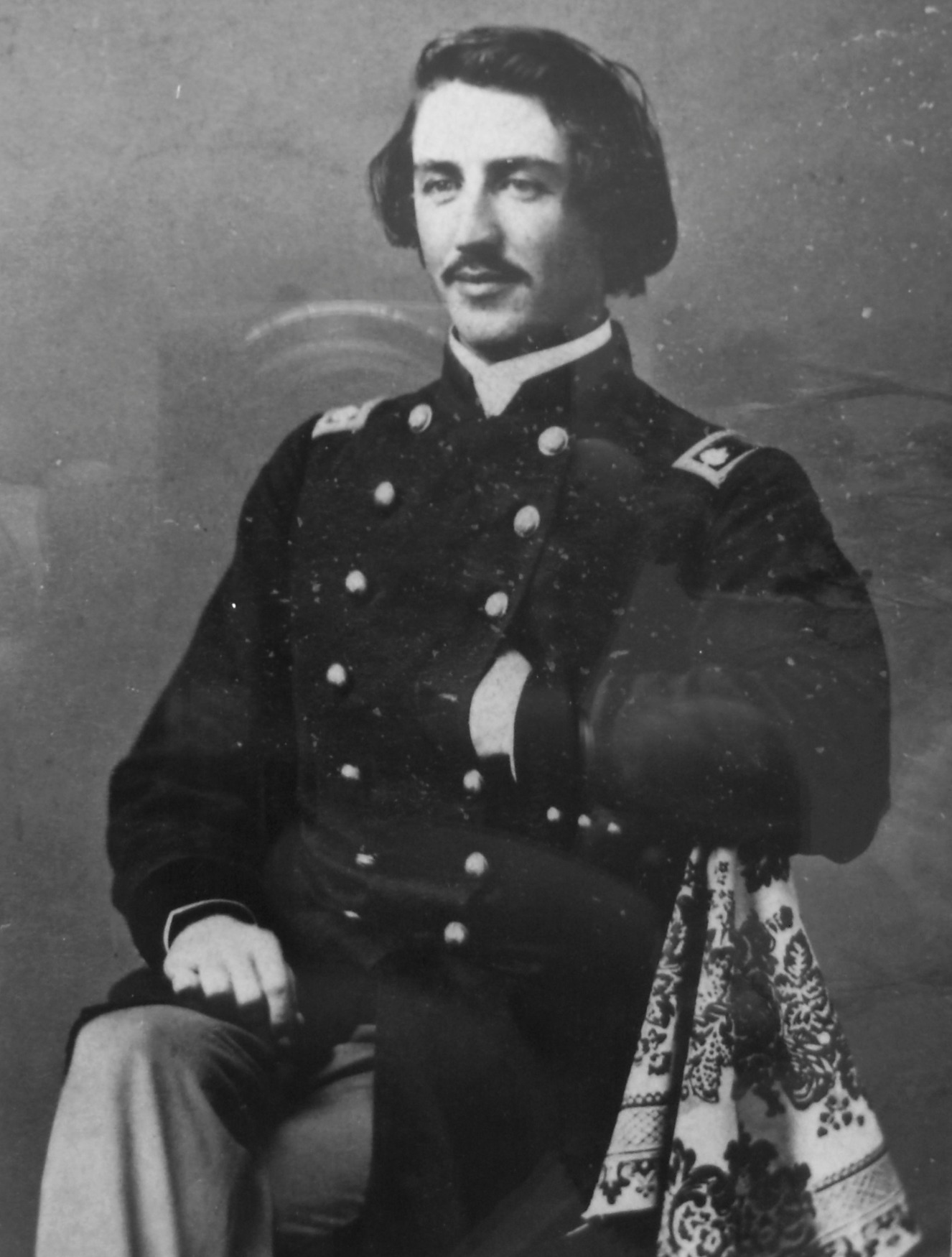 a photograph of civil war soldier Edwin Stanton McCook (1837-1873) displayed at the Daniel McCook House in Carrollton, Ohio.